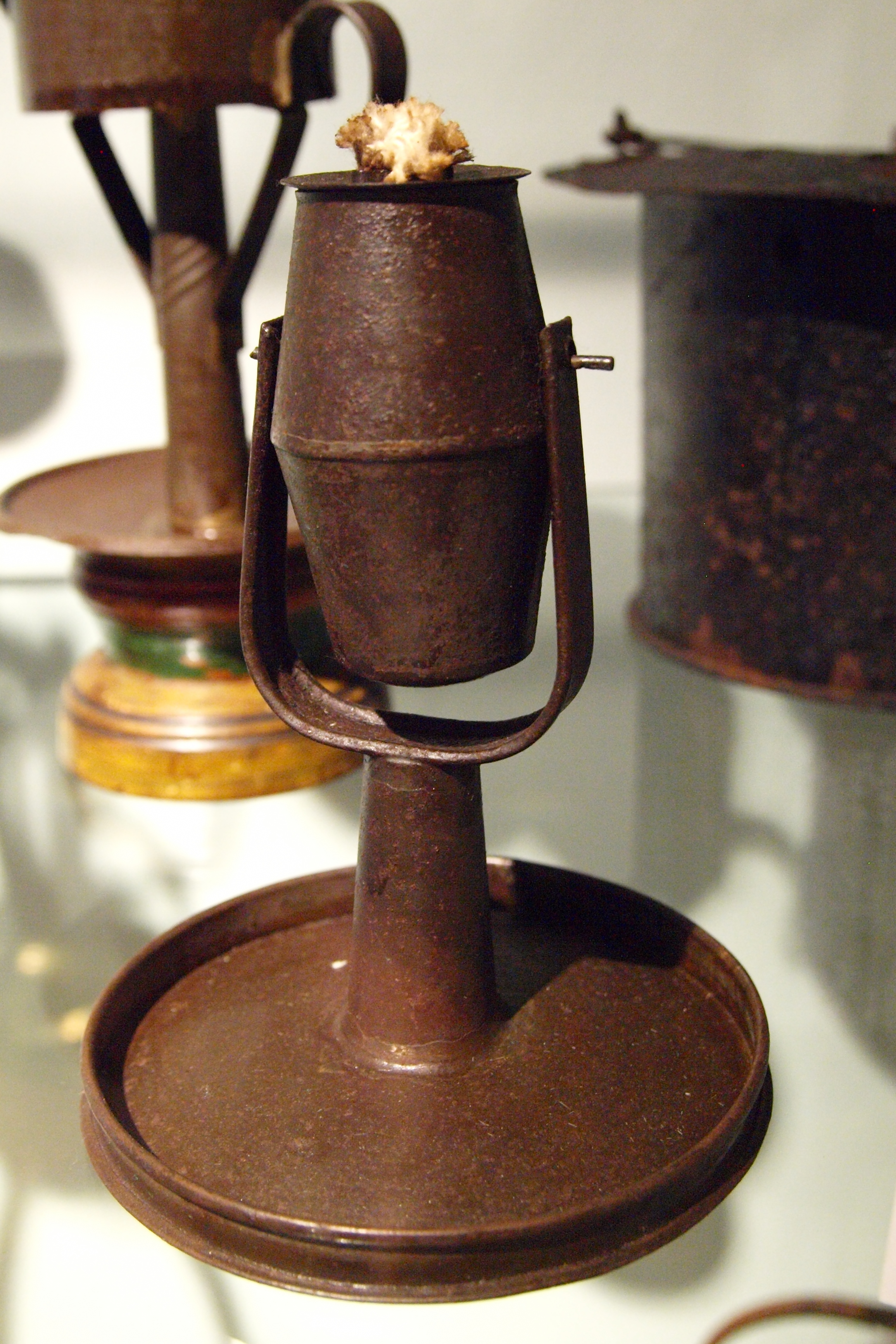 Whale oil lamp of the 18th/20th century. Photographed at Dithmarscher Landesmuseum Meldorf, Schleswig-Holstein, Germany. Iron with cotton wicker.